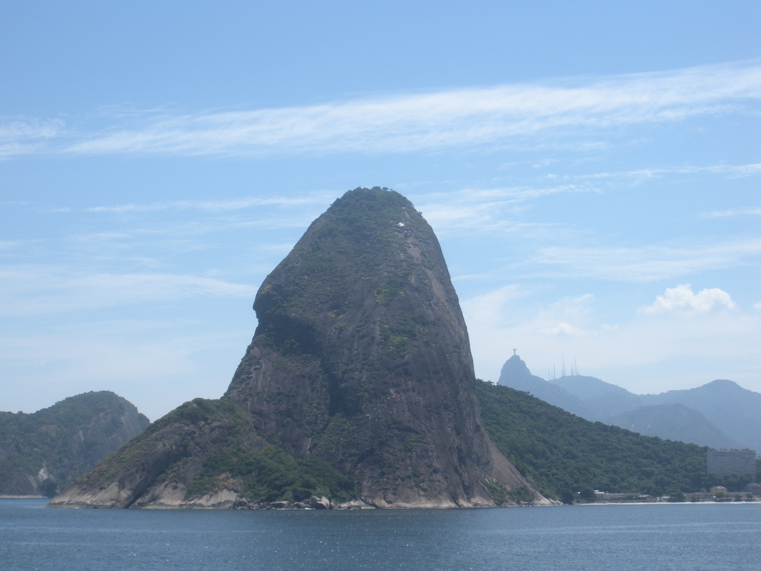 Sugar Loaf Mountain as seen from the seaward side. Christ the Redeemer can be seen to its right.